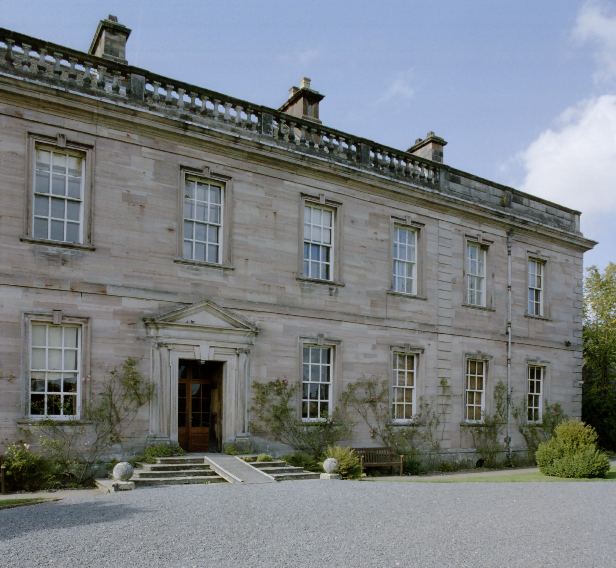 View of Dalemain House from the garden